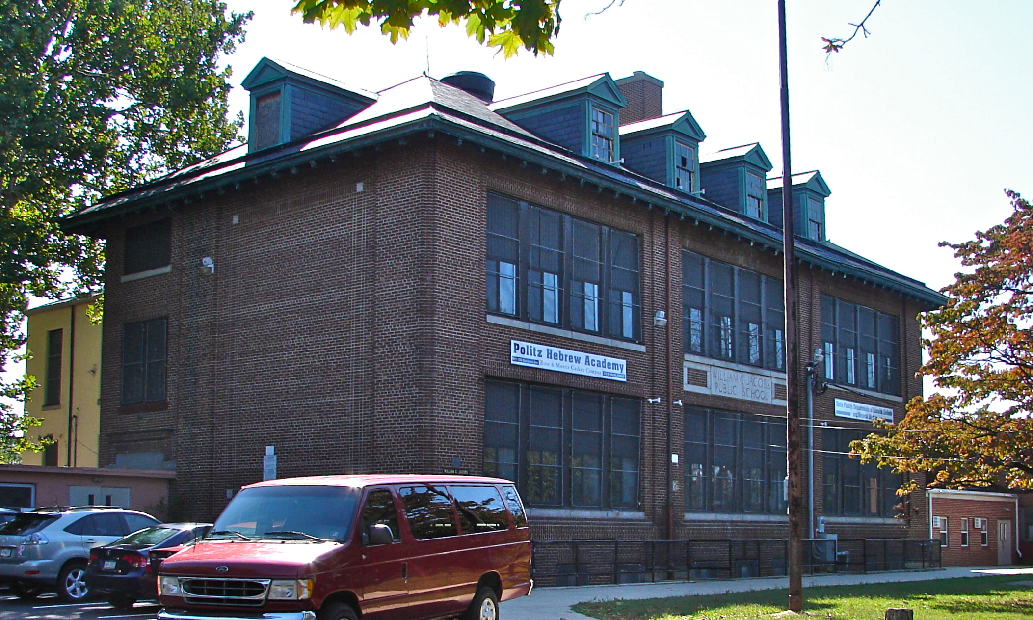 Fayette School aka Jacobs School, now housing the Politz Hebrew Academy, on the NRHP since December 4, 1986. About 1 block south of the corner of Old Bustleton and Welsh Roads (on Old Bustleton). The NRHP plaque is visible in this photo just above the red car. In the NE Philadelphia Neighborhood of Bustleton.